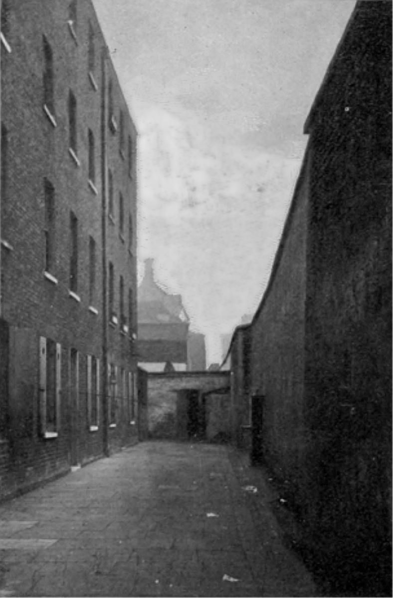 Courtyard of the Marshalsea prison, London, after it had closed in 1842